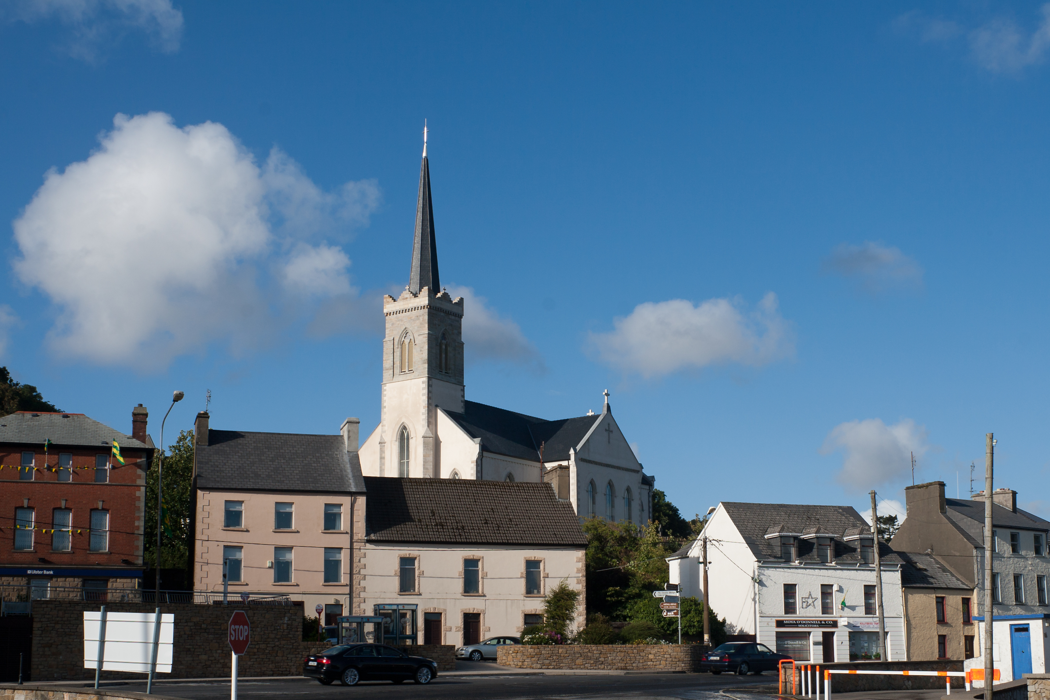 St. Mary of the Visitation Church, close before the restoration project was finished.